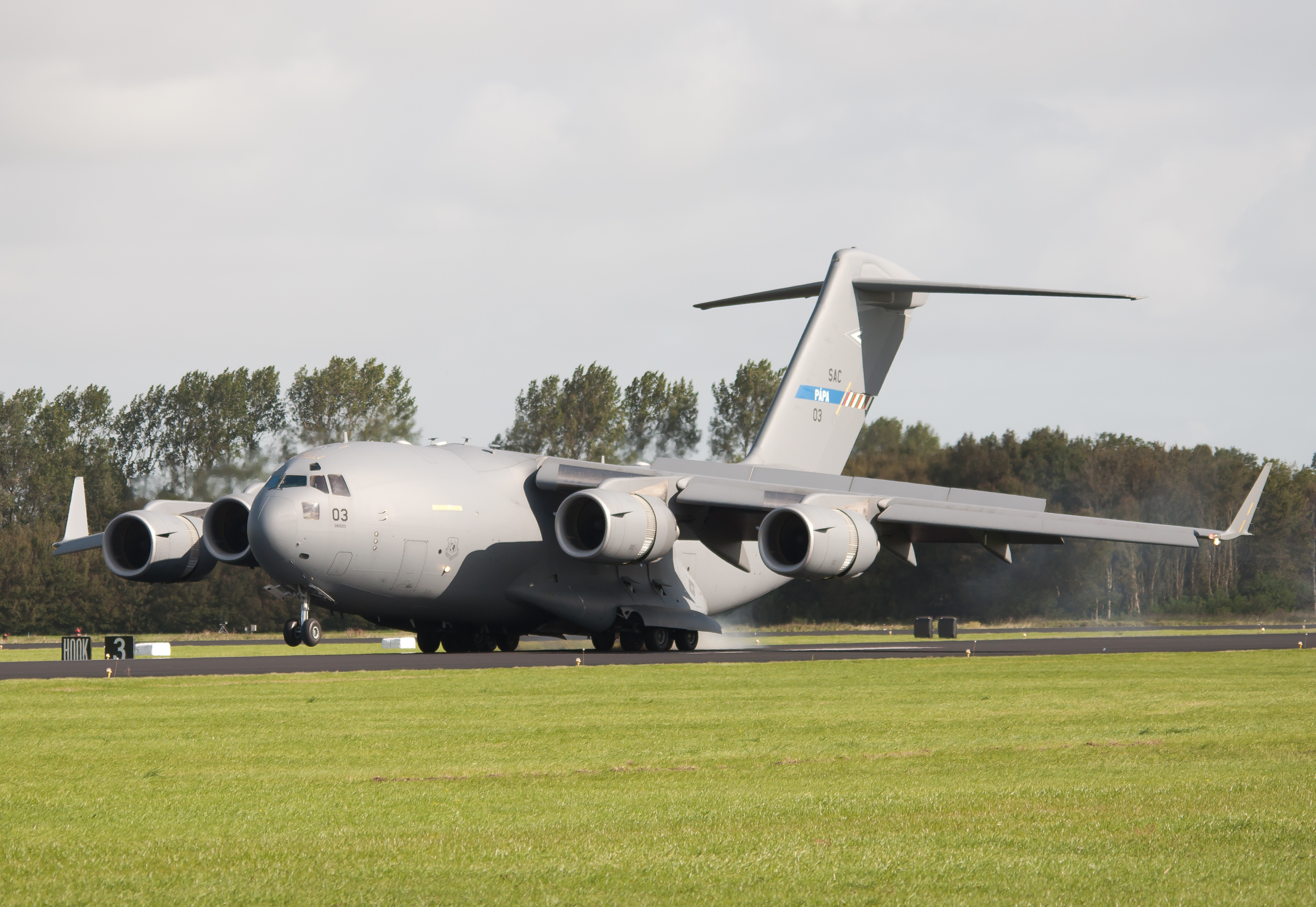 NATO C-17 (SAC) at Leeuwarden Airshow